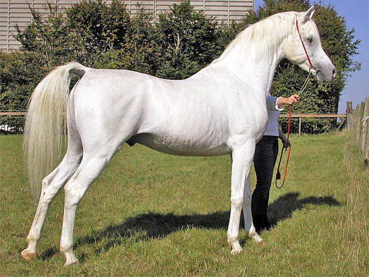 La Mirage, pure bred Arabian stallion by Salaa El Dine out of Bint Mangani